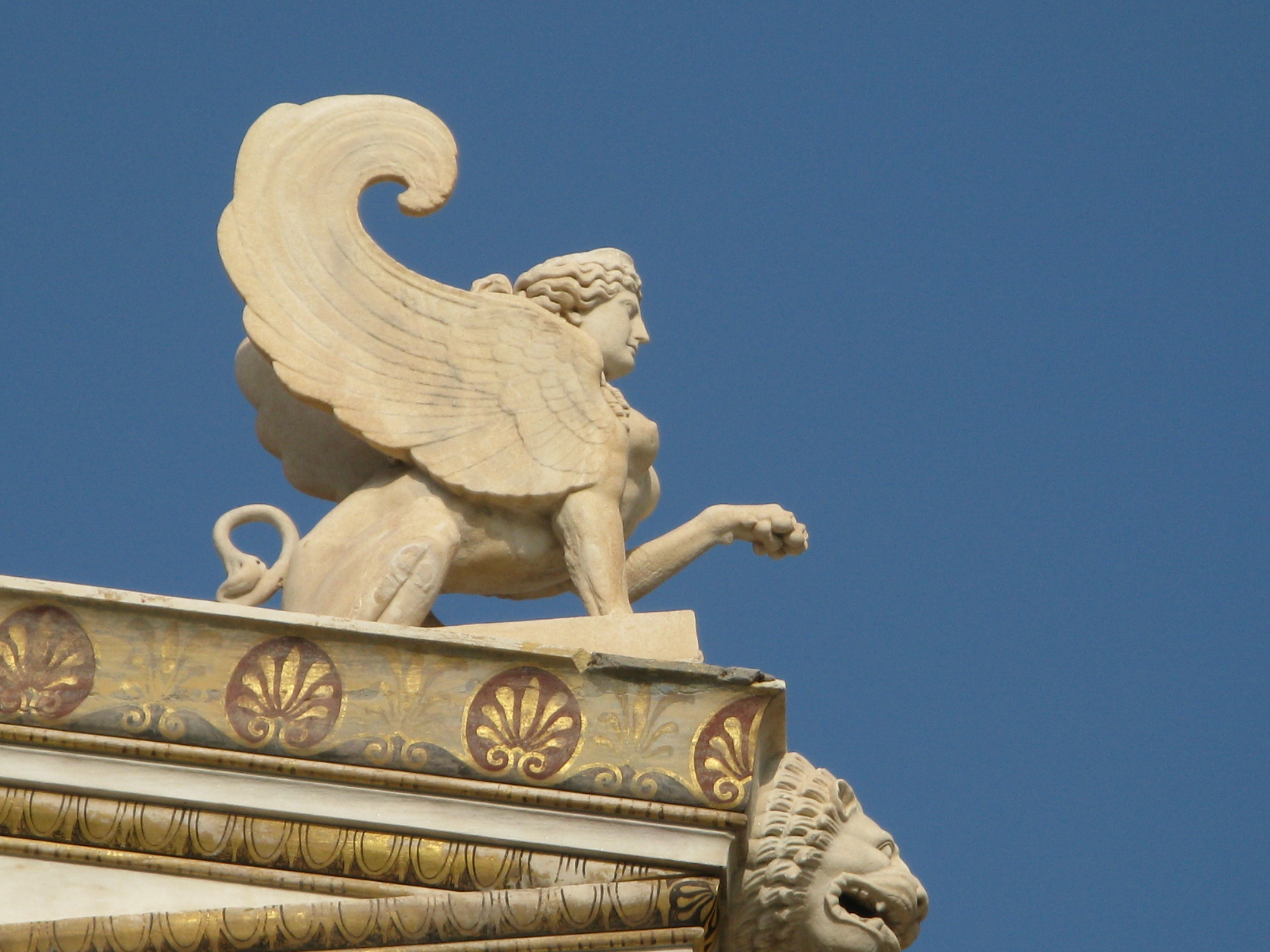 Detail of Stone Carving of Sphinx on the facade of the Academy of Athens.